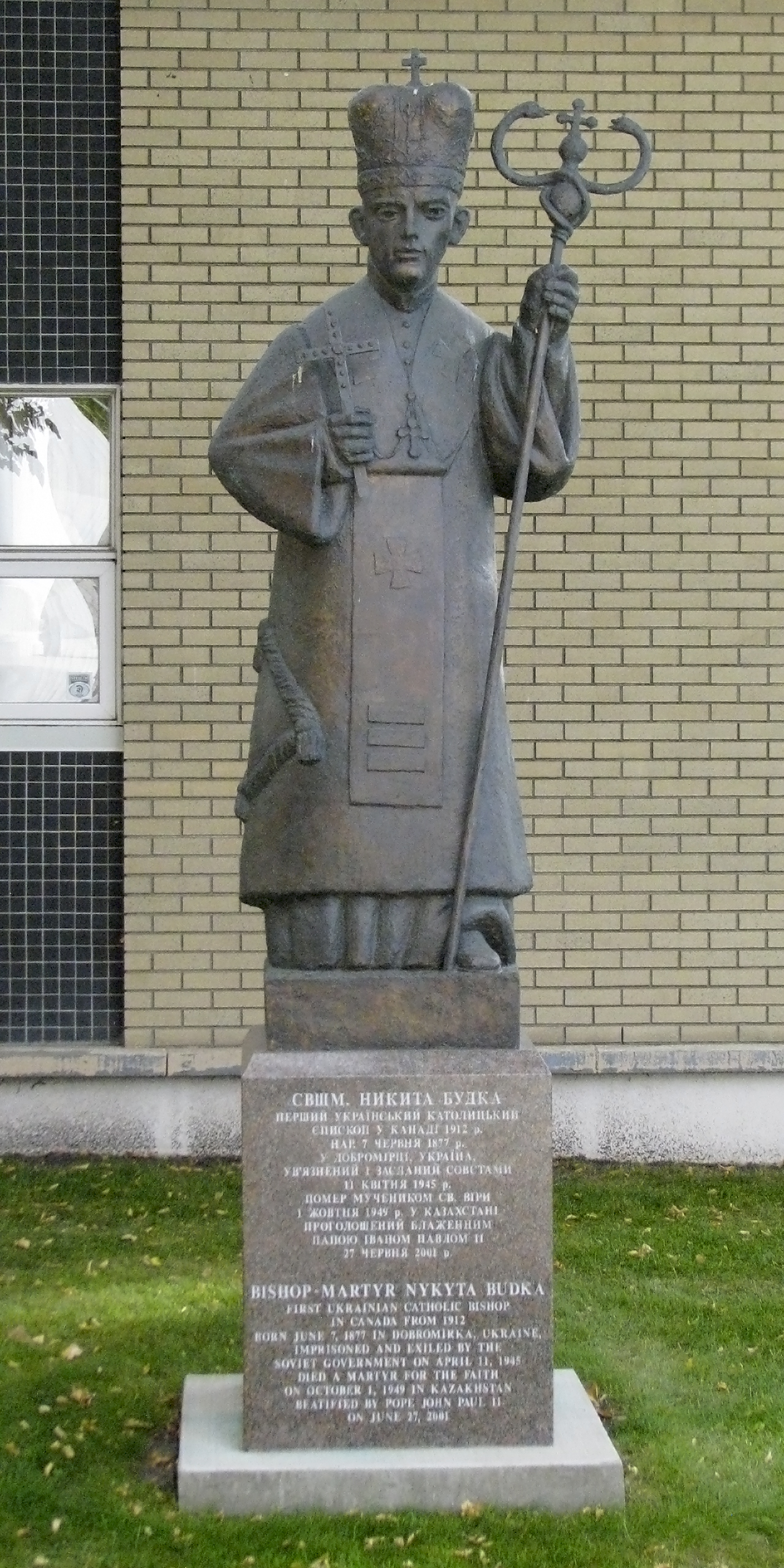 Statue of Bishop-Martyr Nykyta Budka, Edmonton Alberta. Beside St. Josaphat Cathedral, 10825 - 97 Street